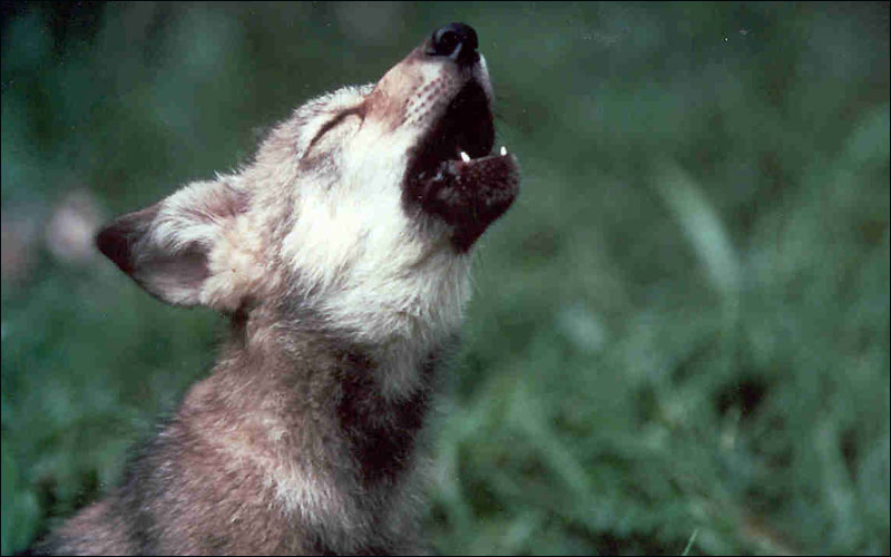 Photo: USFWS